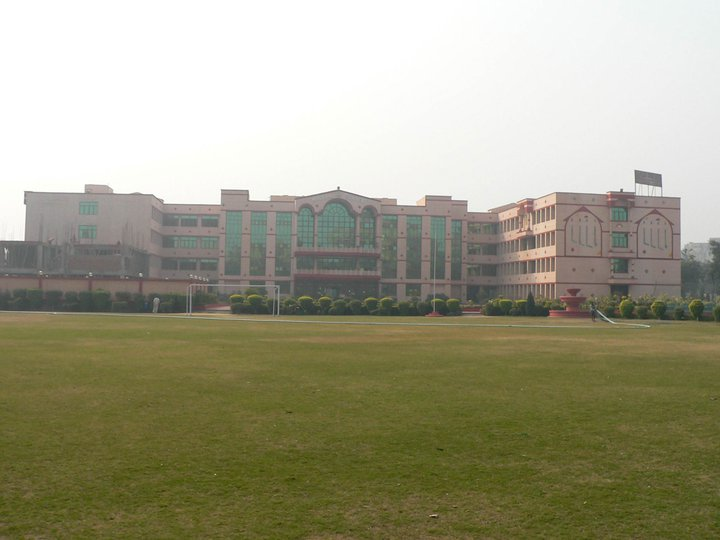 15th July, 2011 Summer Vaccations